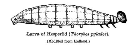 Caterpillar of a Hesperid, Lepidoptera